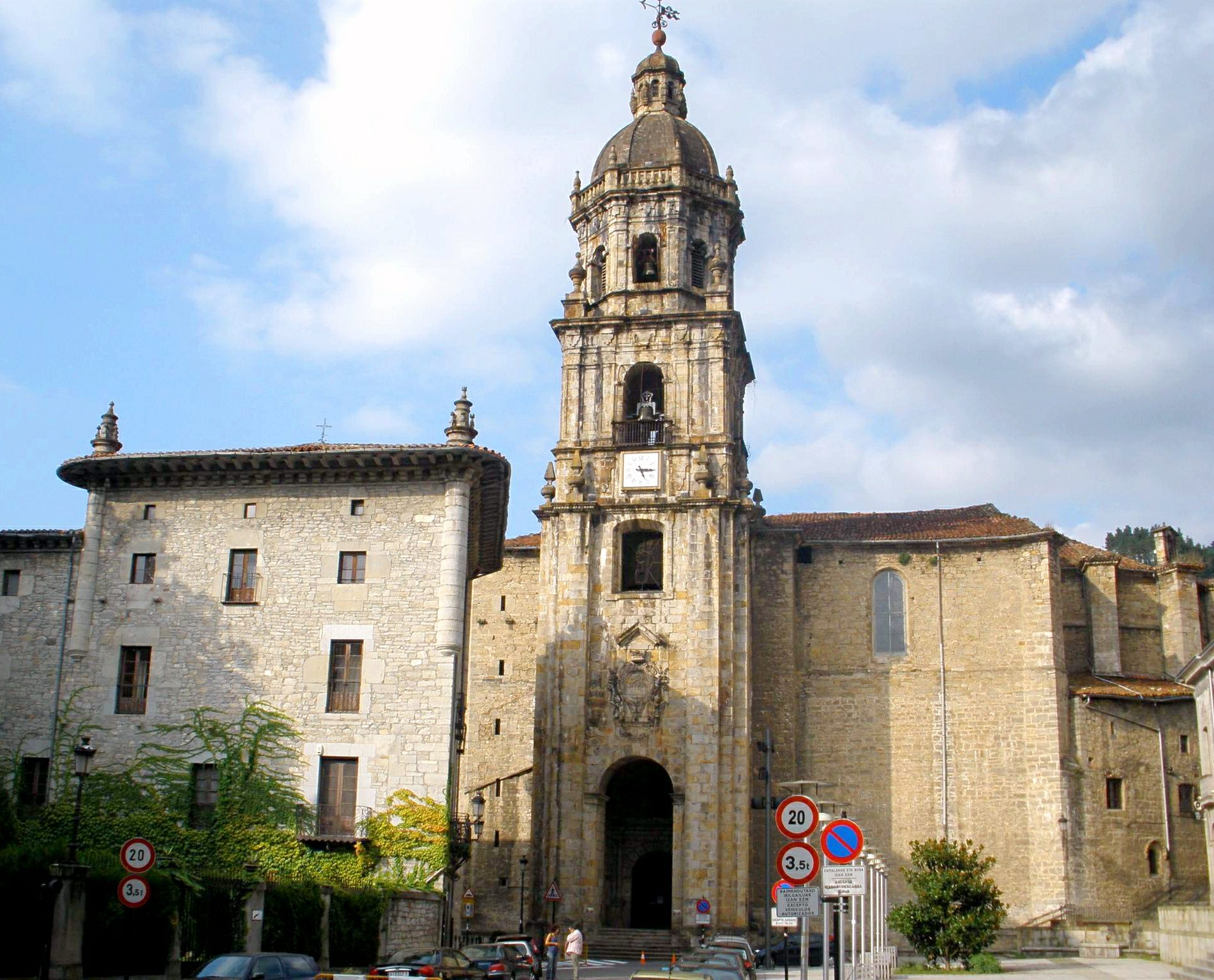 Iglesia de San Pedro de Ariznoa, en Bergara (Guipúzcoa)